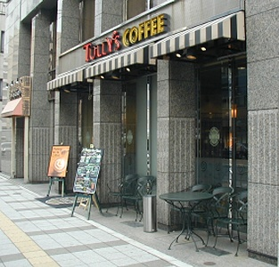 i am author, fair use